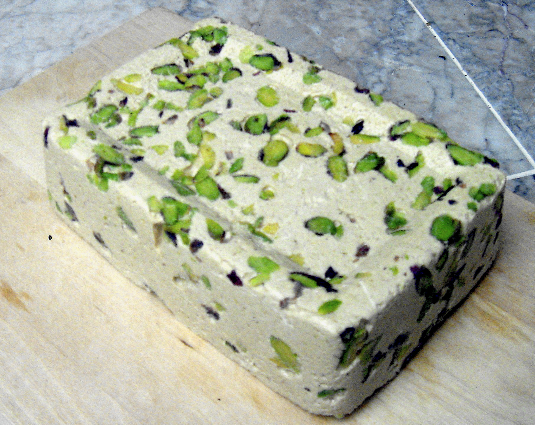 Pistachio Tahini Halva, User:Sjschen, self-created